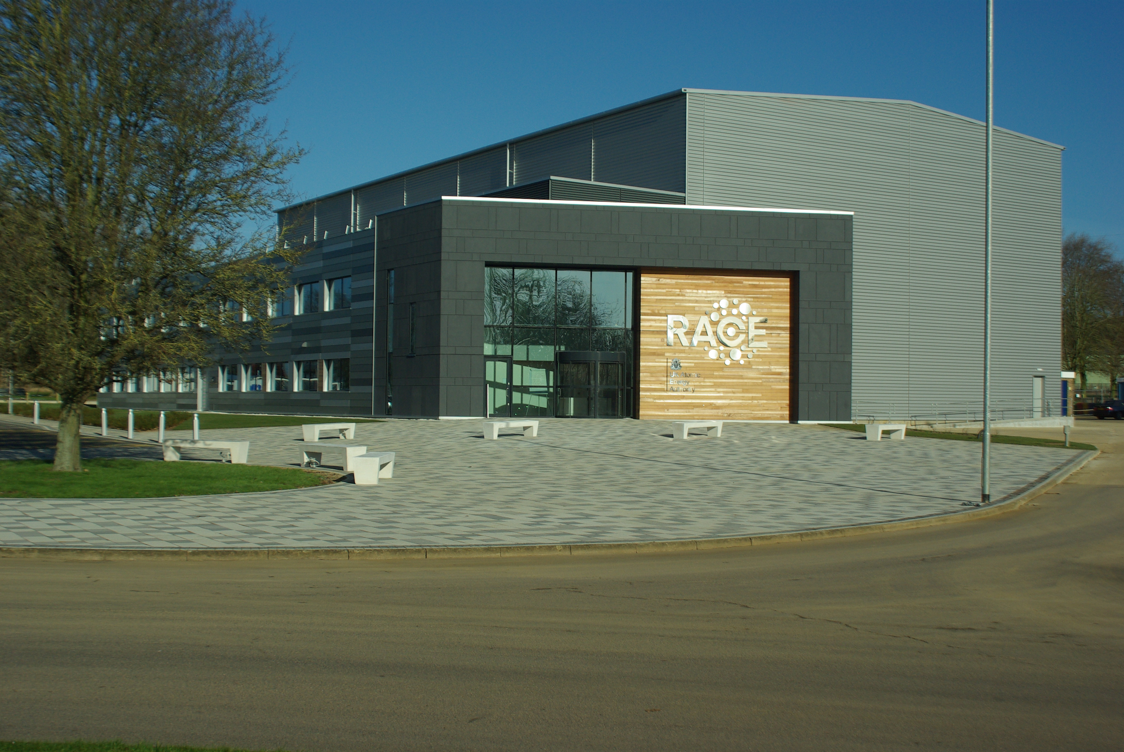 The new RACE building at Culham the UK